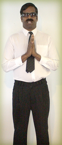 Wilbur Sargunaraj, Simple Superstar